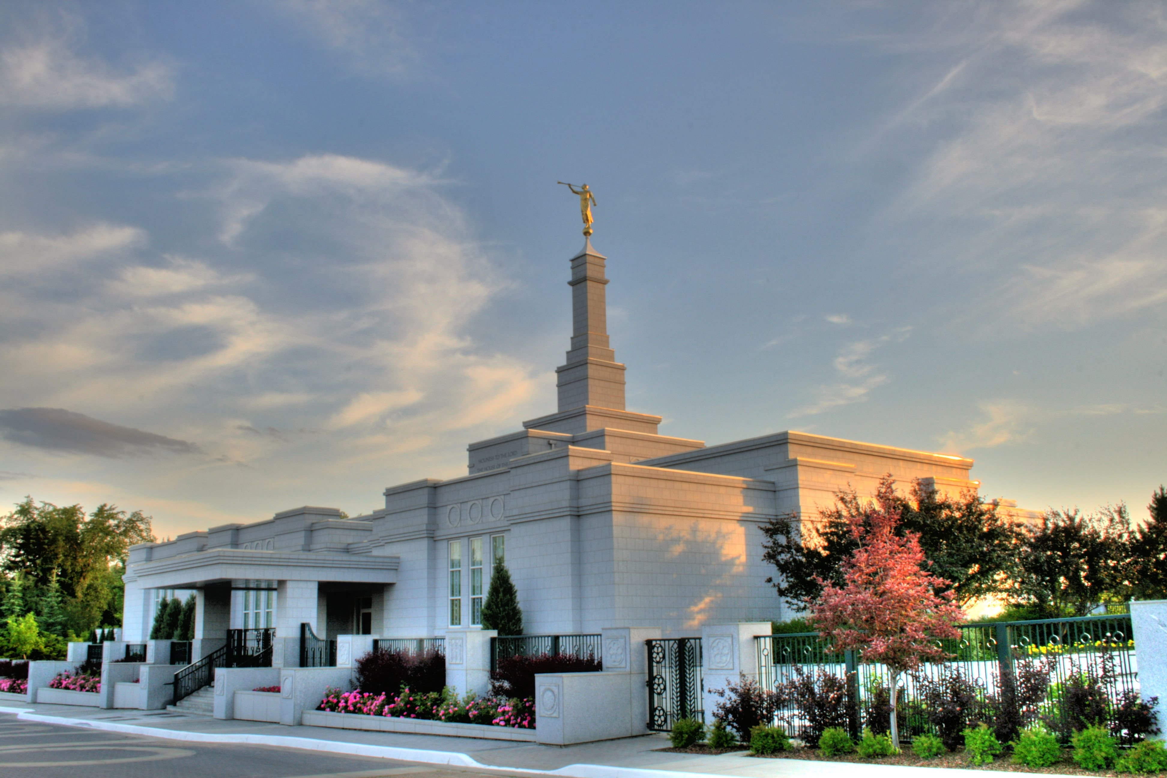 The Edmonton Alberta Temple of The Church of Jesus Christ of Latter-day Saints, Edmonton, Alberta, Canada.